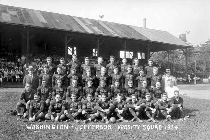 Washington & Jefferson College football team in 1934